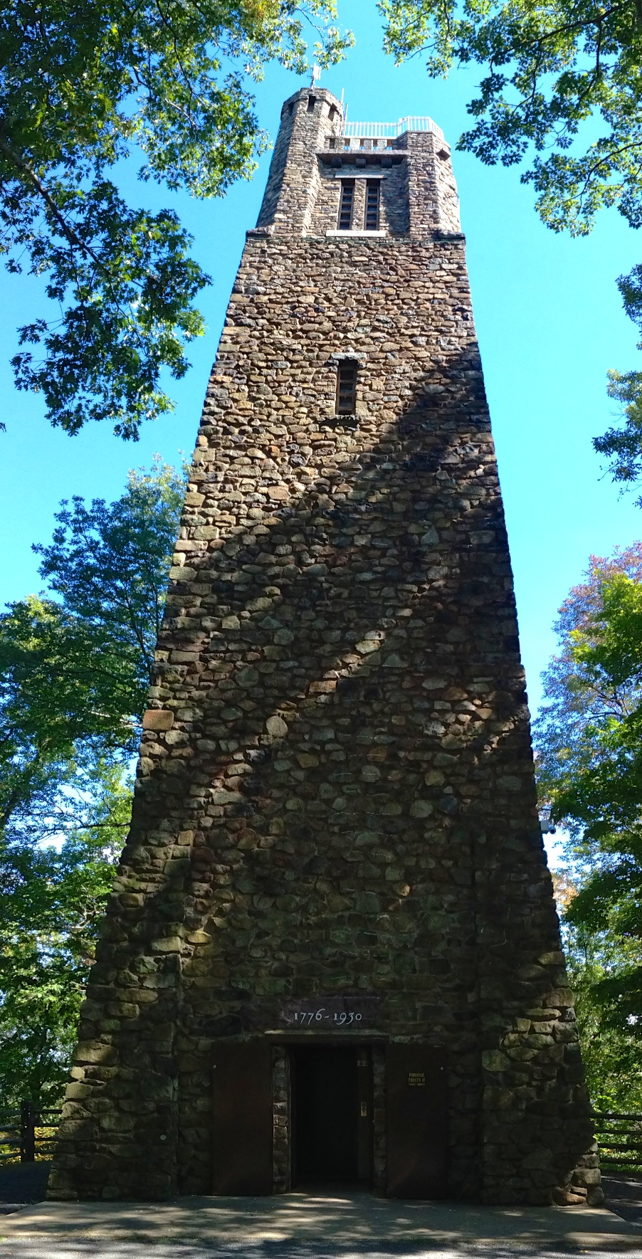 Washington Crossing Historic Park Bowman's Hill Tower